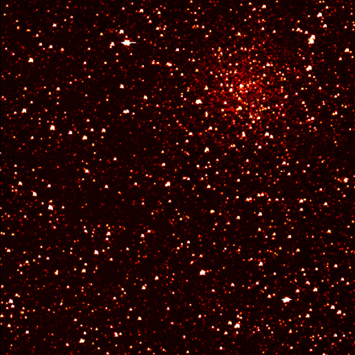 This image zooms into a small portion of Kepler's full field of view -- an expansive, 100-square-degree patch of sky in our Milky Way galaxy. An eight-billion-year-old cluster of stars 13,000 light-years from Earth, called NGC 6791, can be seen in the image.